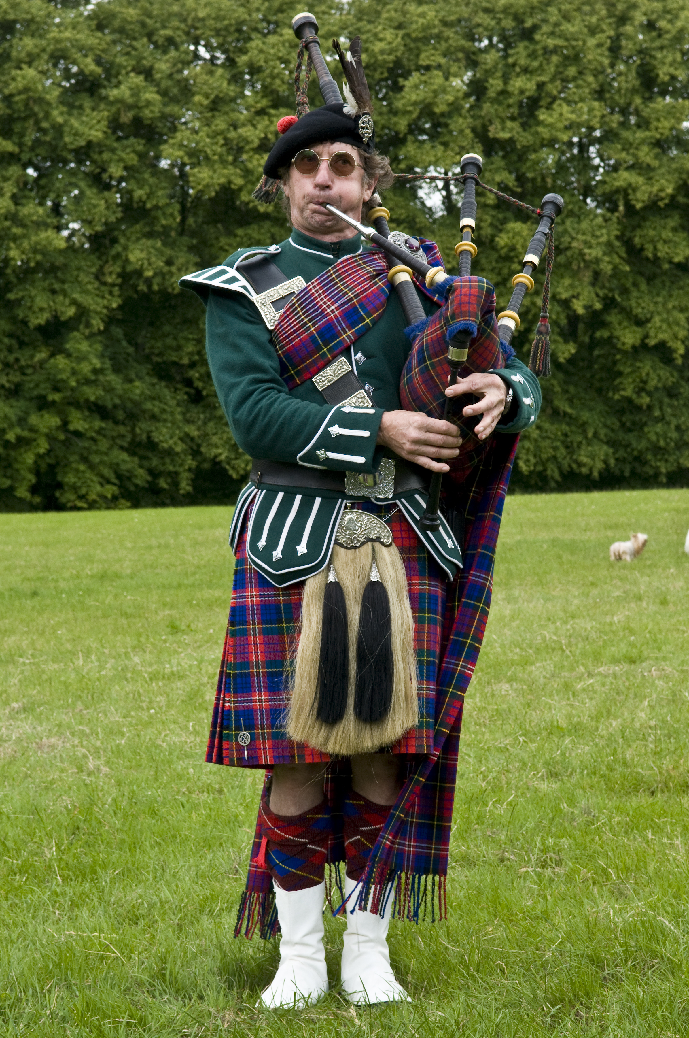 a.k.a. Scottish John Lennon